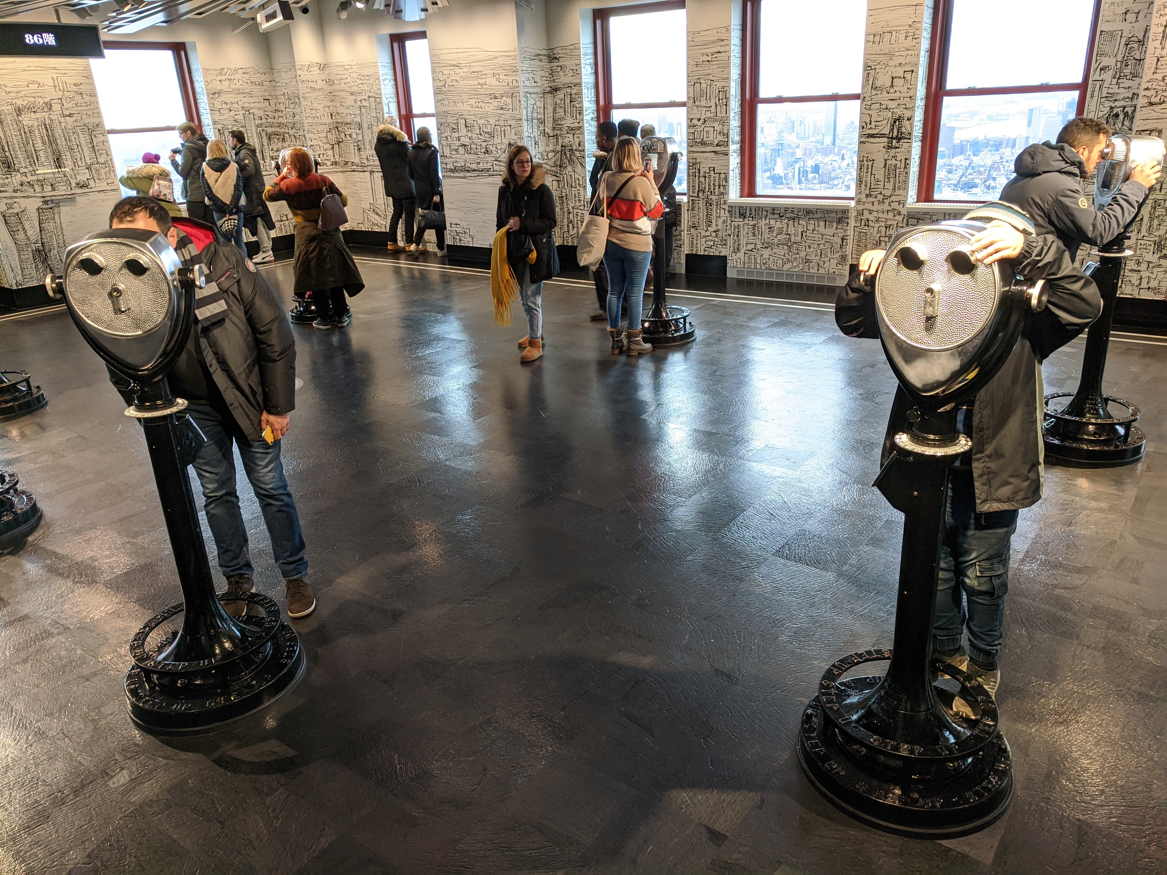 Coin-operated binoculars on the 80th floor of the Empire State Building